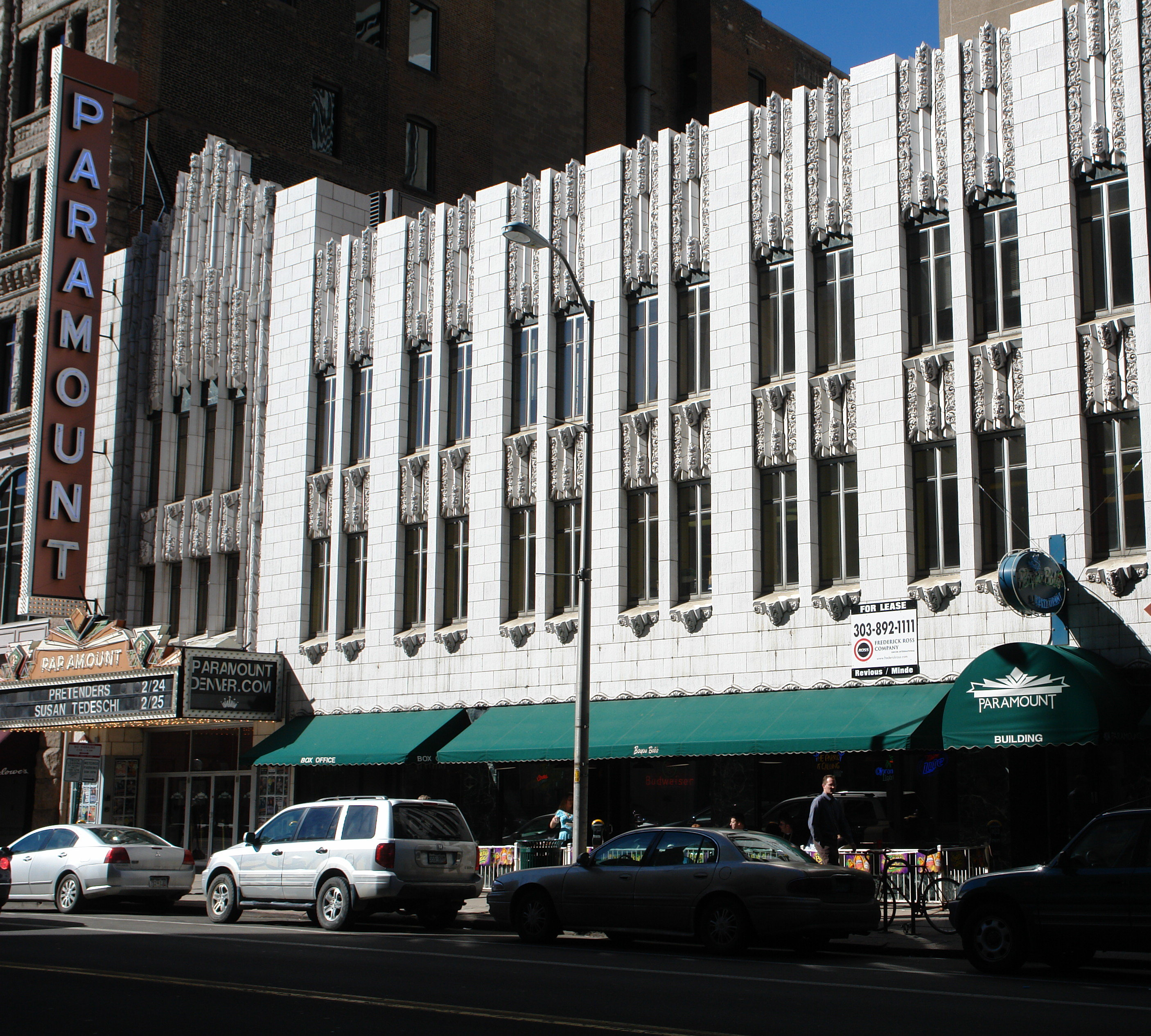 The Glenarm Place side of the Paramount Theatre in Denver, Colorado, United States. Built in 1930, the Art Deco building is listed on the National Register of Historic Places under the name of "Paramount Theater".